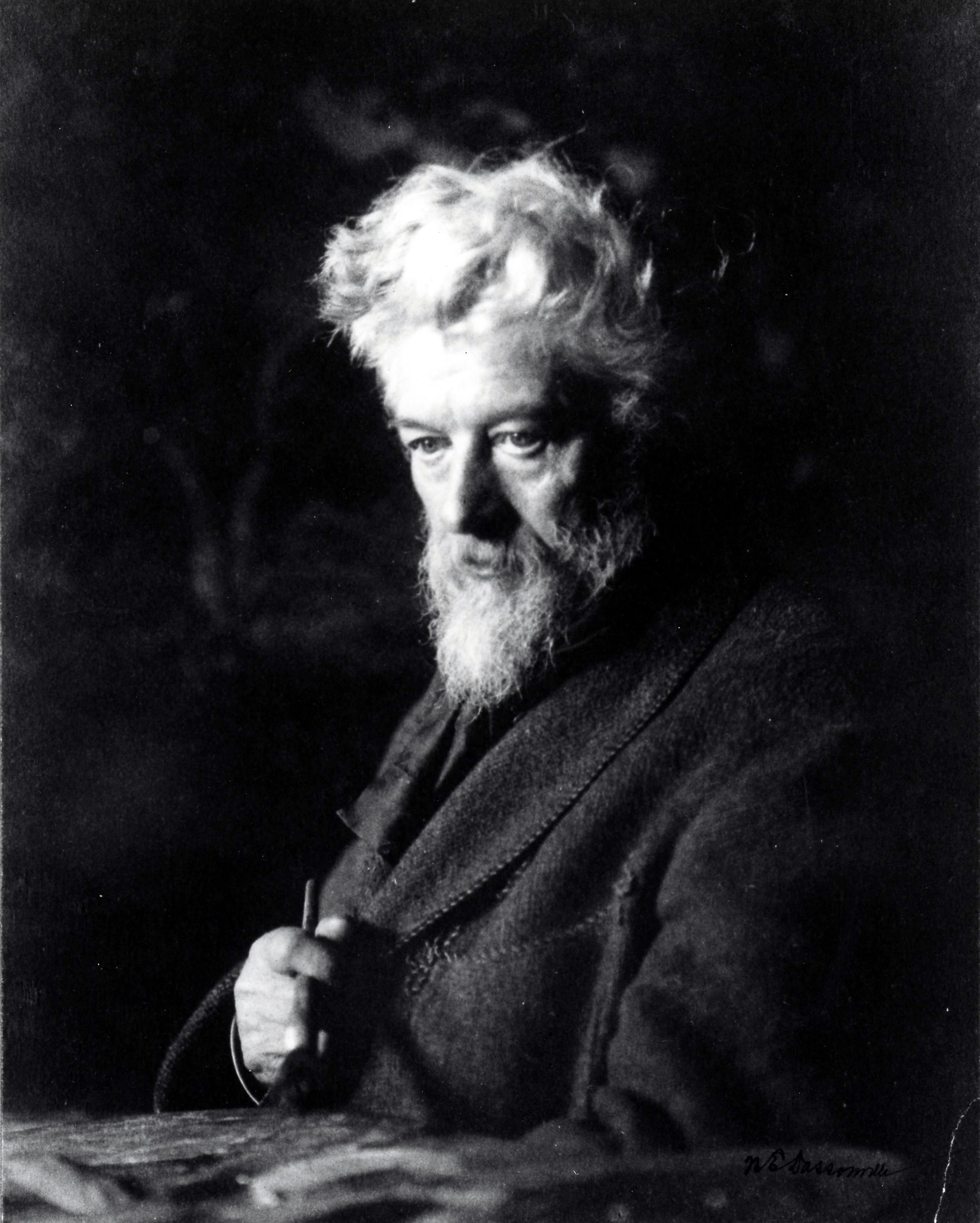 Copy print portrait of Keith with a brush in his hand.